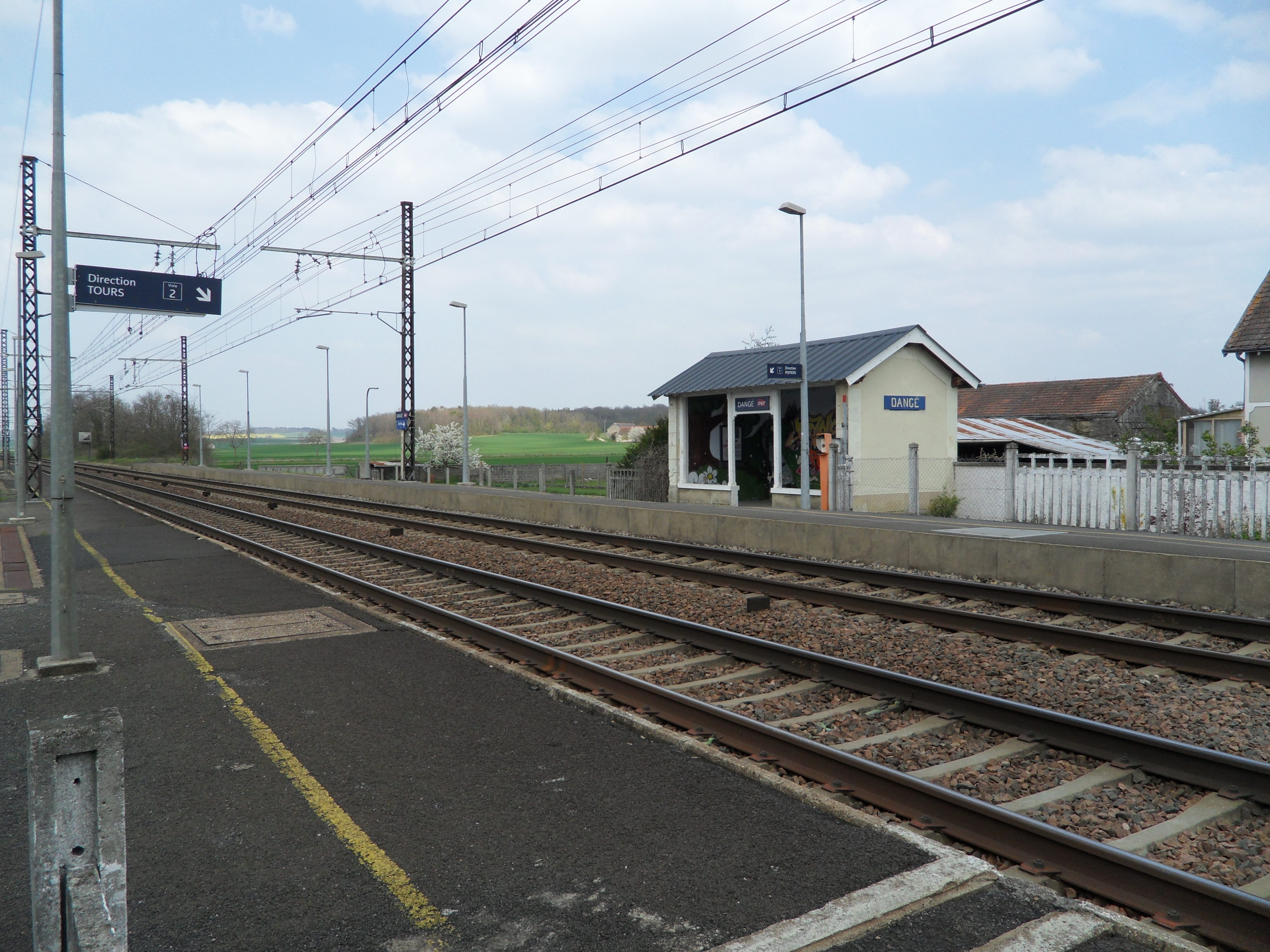 View towards Tours of the station platforms of Dangé.